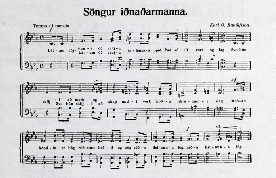 This is a Print Screen take from "Tímarit iðnaðarmanna - Landsamband iðnaðarmanna í Reykjavík" Dated 1.2.1942.